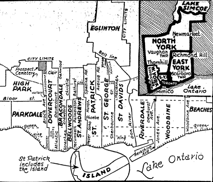 Provincial riding boundaries in Toronto, Ontario as of June 1934